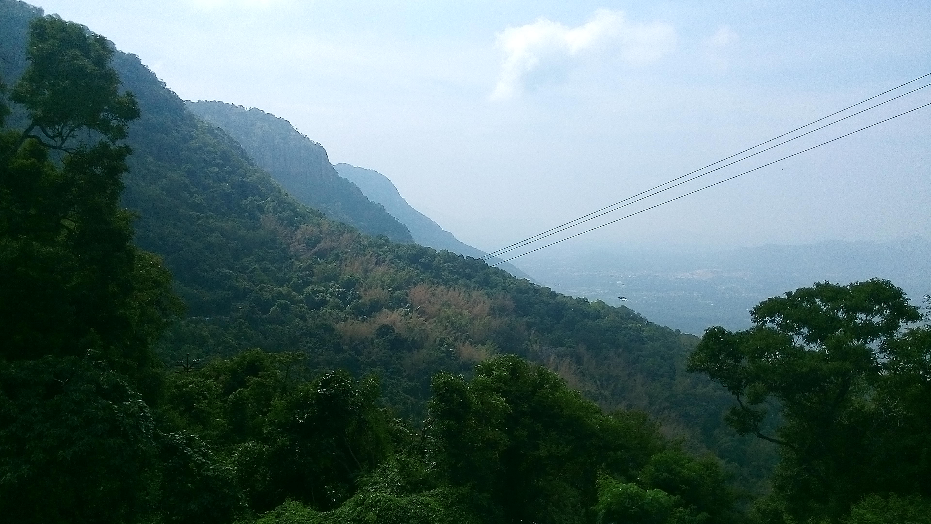 servarays hills in selam